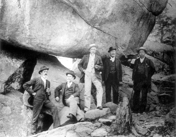 Local call number: PR15185 Title: Members of the Florida Monument Commission at Devil's Den: Gettysburg, Pennsylvania Personal author: Tipton, William Howard Date: July 6, 1895 Physical descrip: 1 photoprint; b&w; 3 x 4 in. Series Title: Reference collection General note: Colonel Walter Moore is at the left. He served in the 2nd Florida Infantry Regiment during the Civil War and commanded the unit during the last year of the war. He supposedly wore the watch chain he is wearing through all the battles of the war. It is still in his family but has since been divided into two bracelets. The other men in the image are (left to right): Colonel David Lang (seated) of the 8th Florida Infantry Regiment, Captain William Duncan Ballantine of Company A, 2nd Florida Infantry, along with Major William M. Robbins and Colonel John P. Nicholson of the Gettysburg Battlefield Commission. Repository: State Library and Archives of Florida, 500 S. Bronough St., Tallahassee, FL 32399-0250 USA. Contact: 850.245.6700. Persistent URL